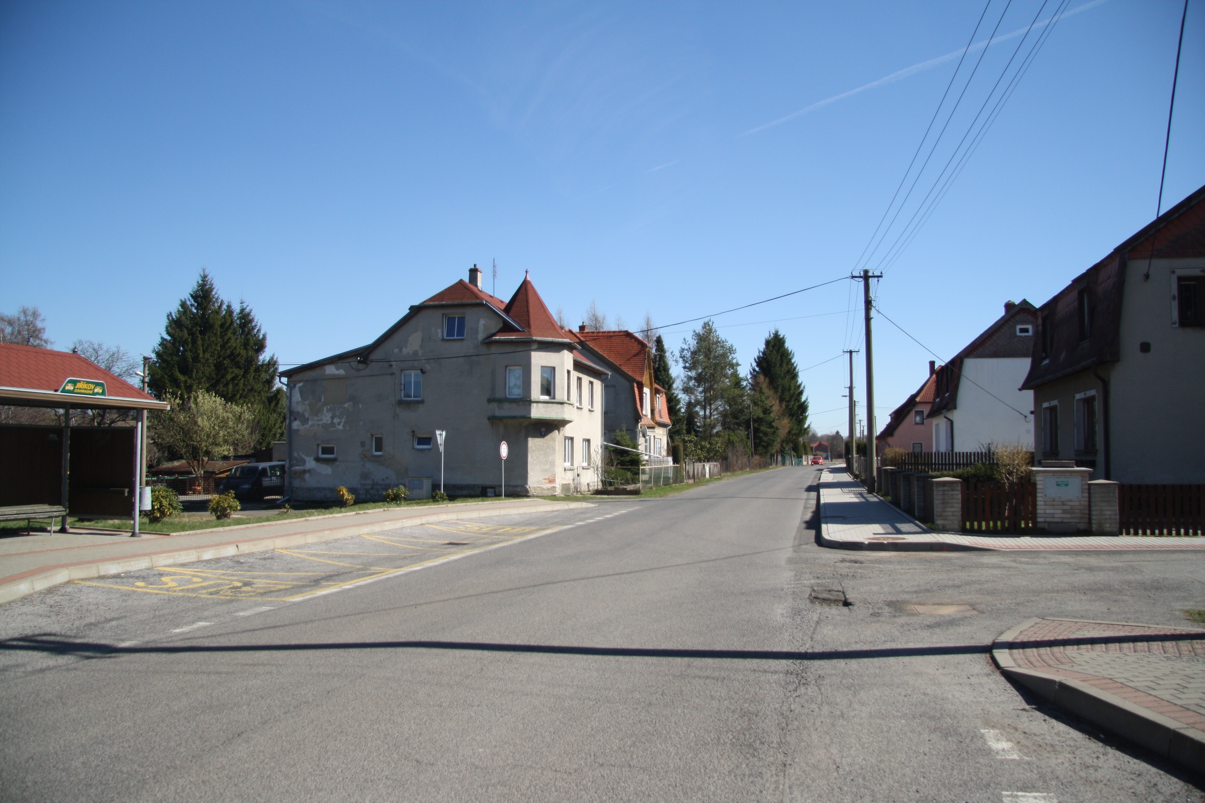 Center of Loučné 2, Jiříkov, Děčín District.